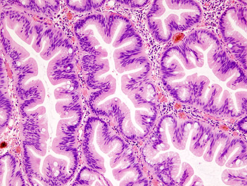 Histopathology demonstrating a serrated adenoma of colon. H & E stain.